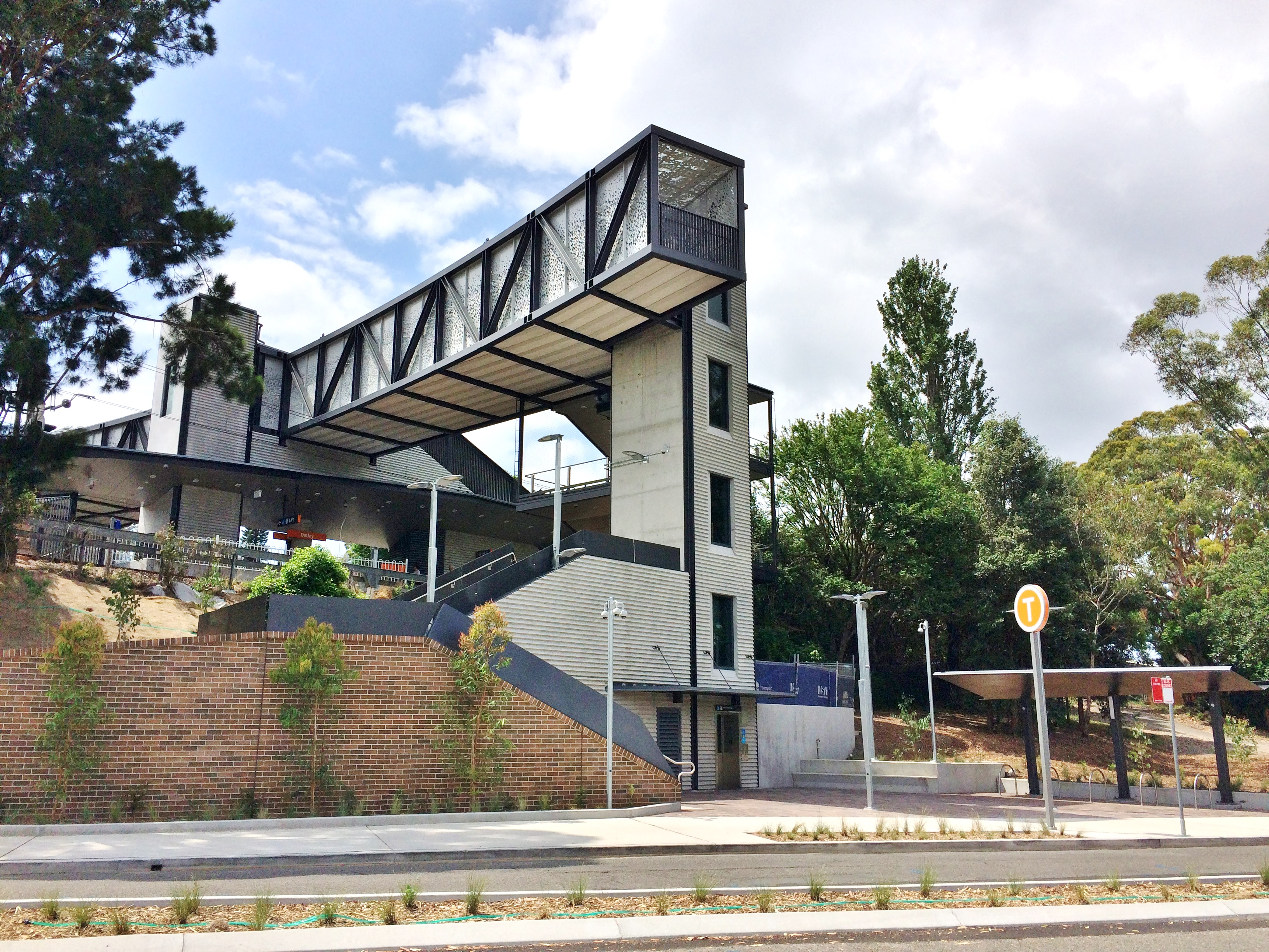 Original caption: "(Photo 1 in a series of 2) Two views, from different angles, of the Mulga Road entrance of the redeveloped Oatley railway station. Taken on 3 December 2016. Upgrade works on the station commenced in May 2015, and were completed in December 2016, allowing accessible entrance through elevators, and entry to the station from both Mulga Road and Oatley parade, via a new footpath marked by a modern architectural design. Oatley railway station is the last station on the South Coast railway line before the Georges river crossing, and is serviced by Sydney Trains' T4 Eastern Suburbs and Illawarra Line service. This photo was contrast and brightness edited from its original file."